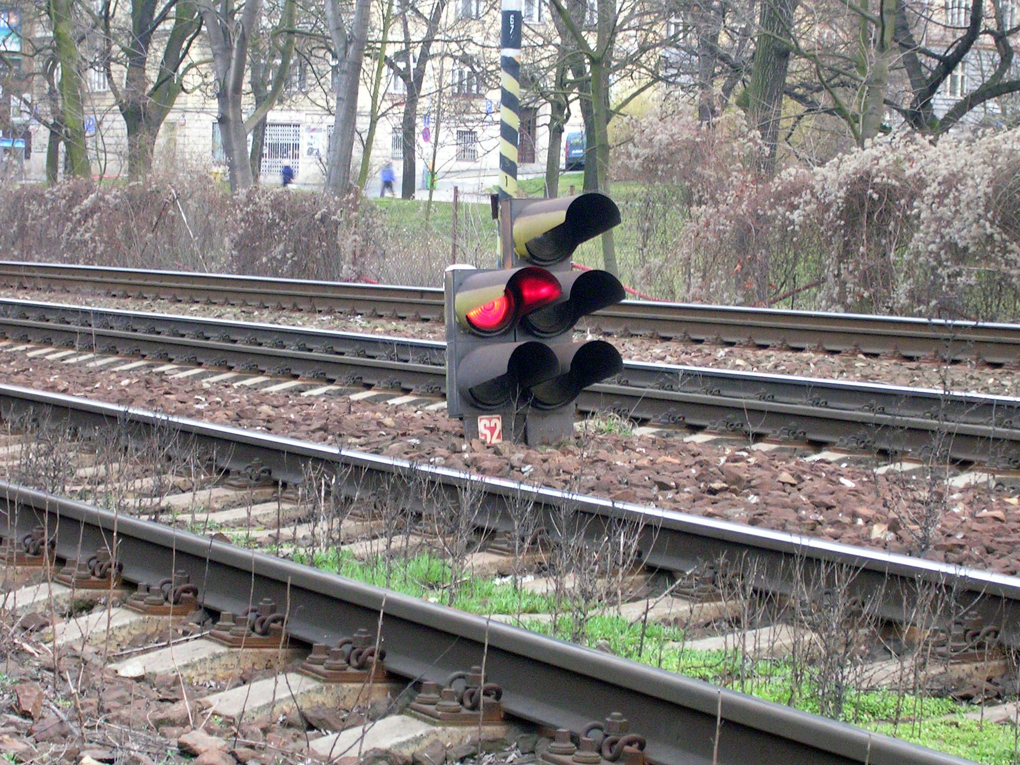 Vyšehrad, Prague, the Czech Republic. Former train station Praha-Vyšehrad.